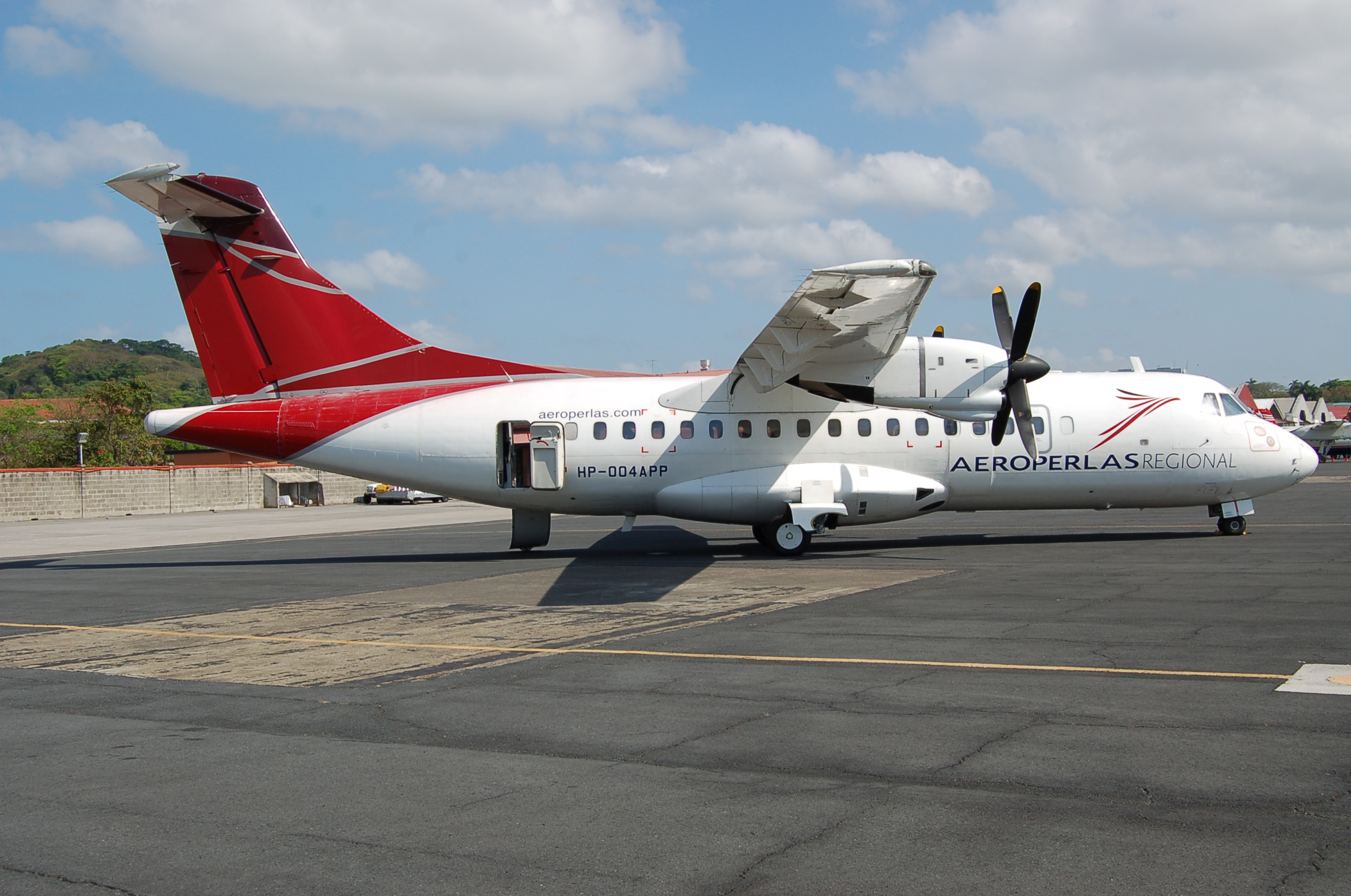 Aerospatiale ATR42 of Aeroperlas at Panama City-Marcos A.Gelabert,Panama 08/03/11.